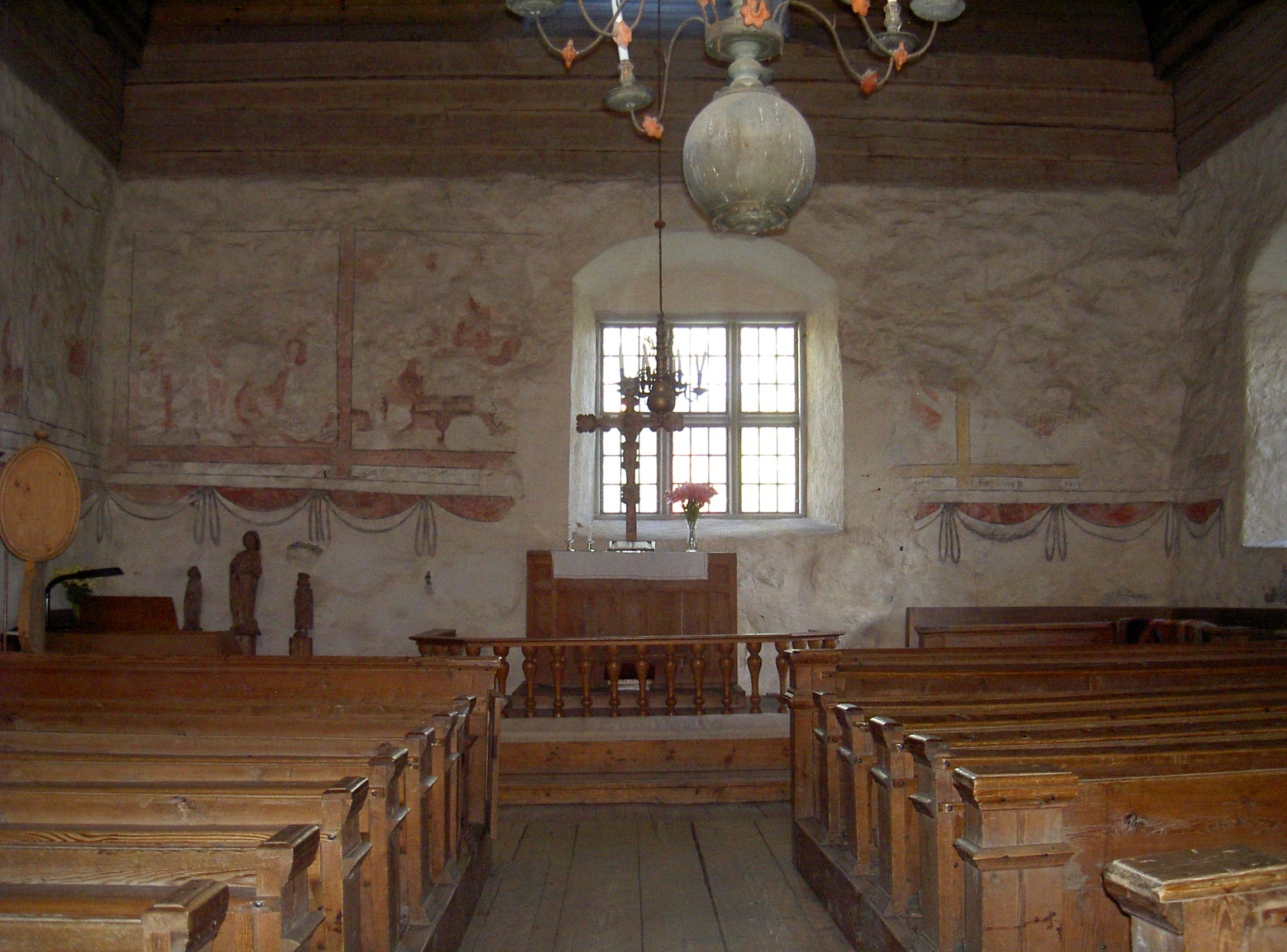 Messukylä Old Church in Tampere, Finland.